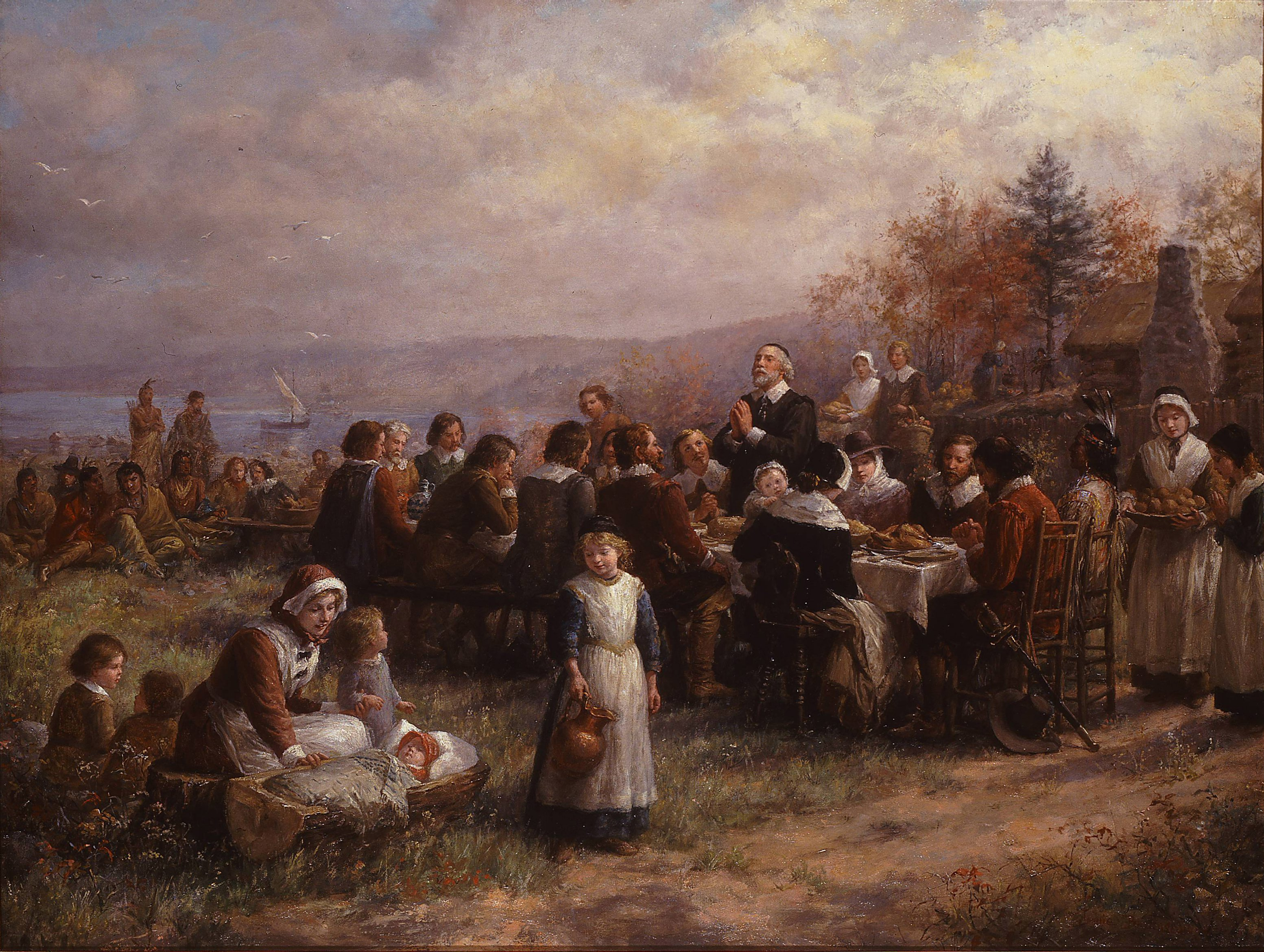 A 1925 recreation of Brownscombe's earlier 1914 painting of the First Thanksgiving at Plymouth, significant in that it omits the Plains Indian headdresses that were criticized as non-historically accurate in her 1914 version.